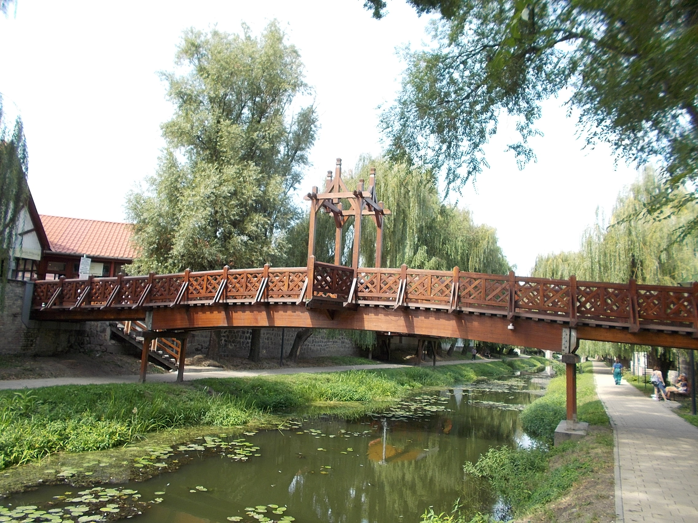 Footbridge over Zagyva. - Kossuth street, Jászberény, Jász-Nagykun-Szolnok County, Hungary